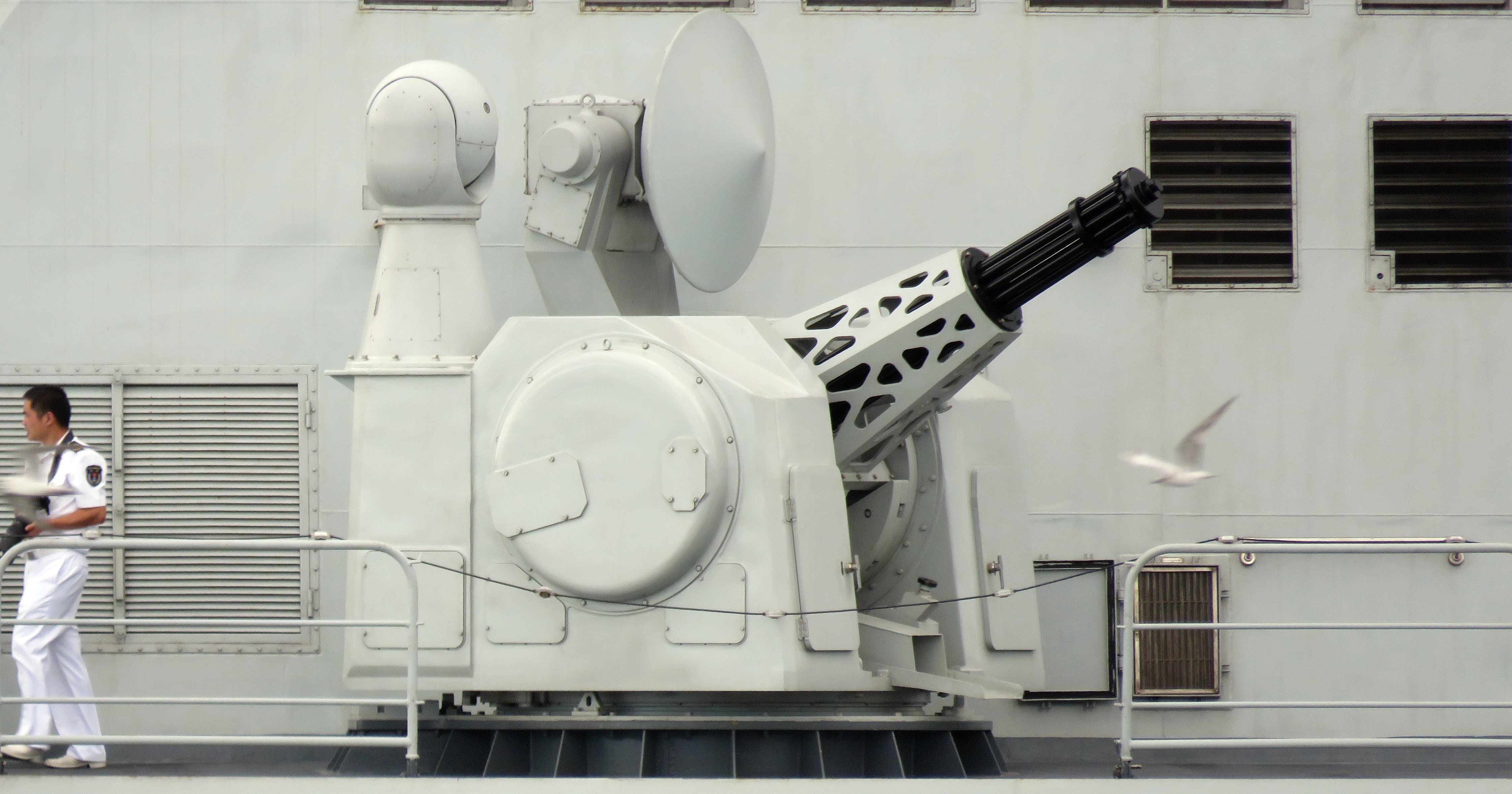 The Type 1130 Close In Weapons (CIWS) of the Wuhu (539), a Type 054A Frigate of the People's Liberation Army Navy (PLAN). Photo taken at the Manila South Harbor.